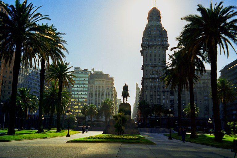 Town square in Uruguay taken by יואב רוזנברג